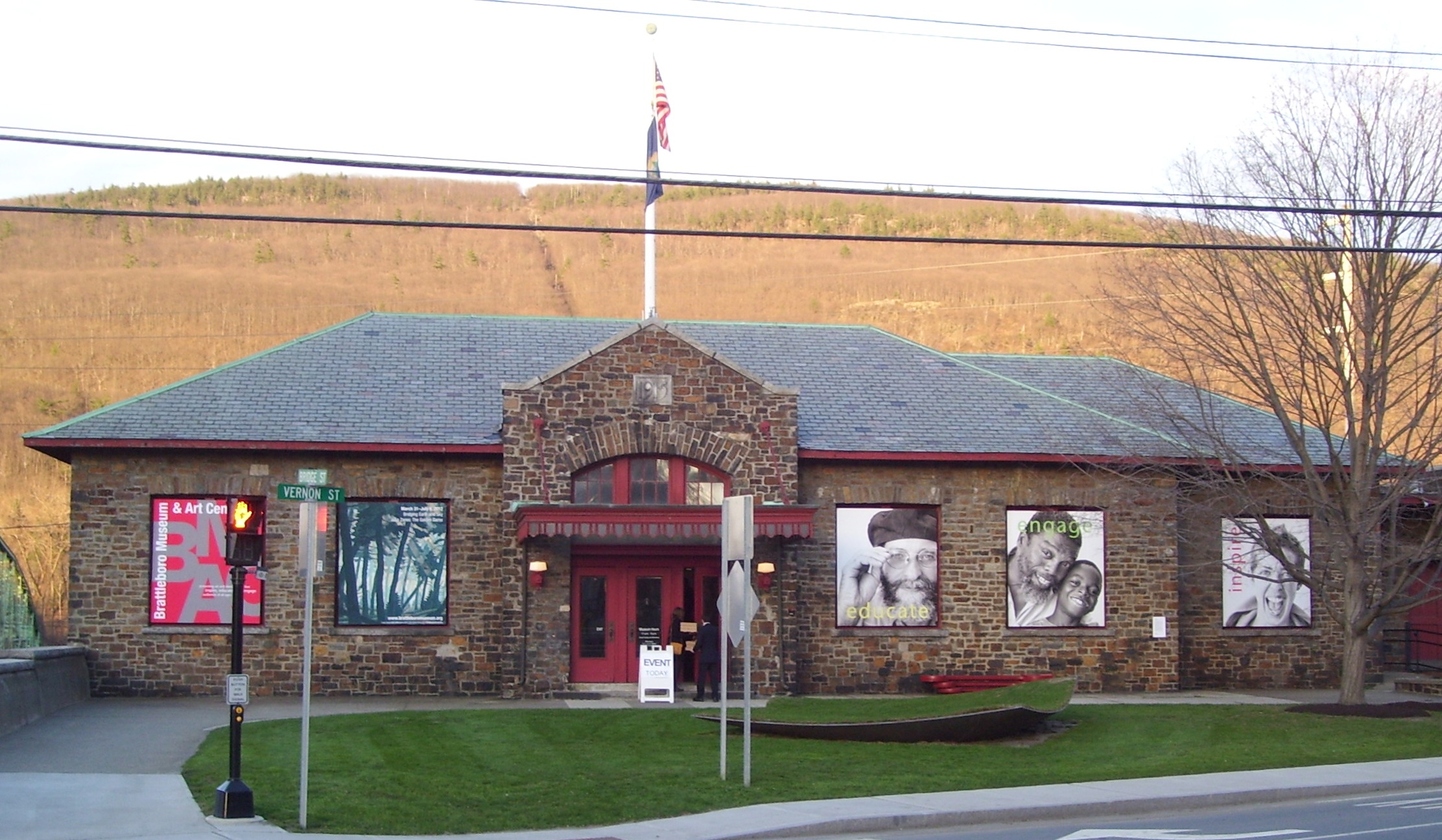 The Brattleboro Museum & Art Center on Vernon Road in Brattleboro, Vermont is the former Union Station, built in 1915. The facade is quarzite rubble which was mined locally, across the Connecticut River in New Hampshire. It was converted into a museum in the 1970s. The building is located within the Brattleboro Downtown Historic District and is listed on the National Register of Historic Places. (Source: "The Visitor's Guide to Brattleboro and the Vibrant Villages of Southern Vermont" (2010))